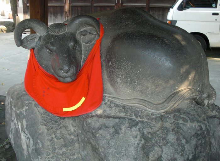 Nadeuchi in Ushijima_shirine (Mukōjima, Sumida, Tokyo, Japan)